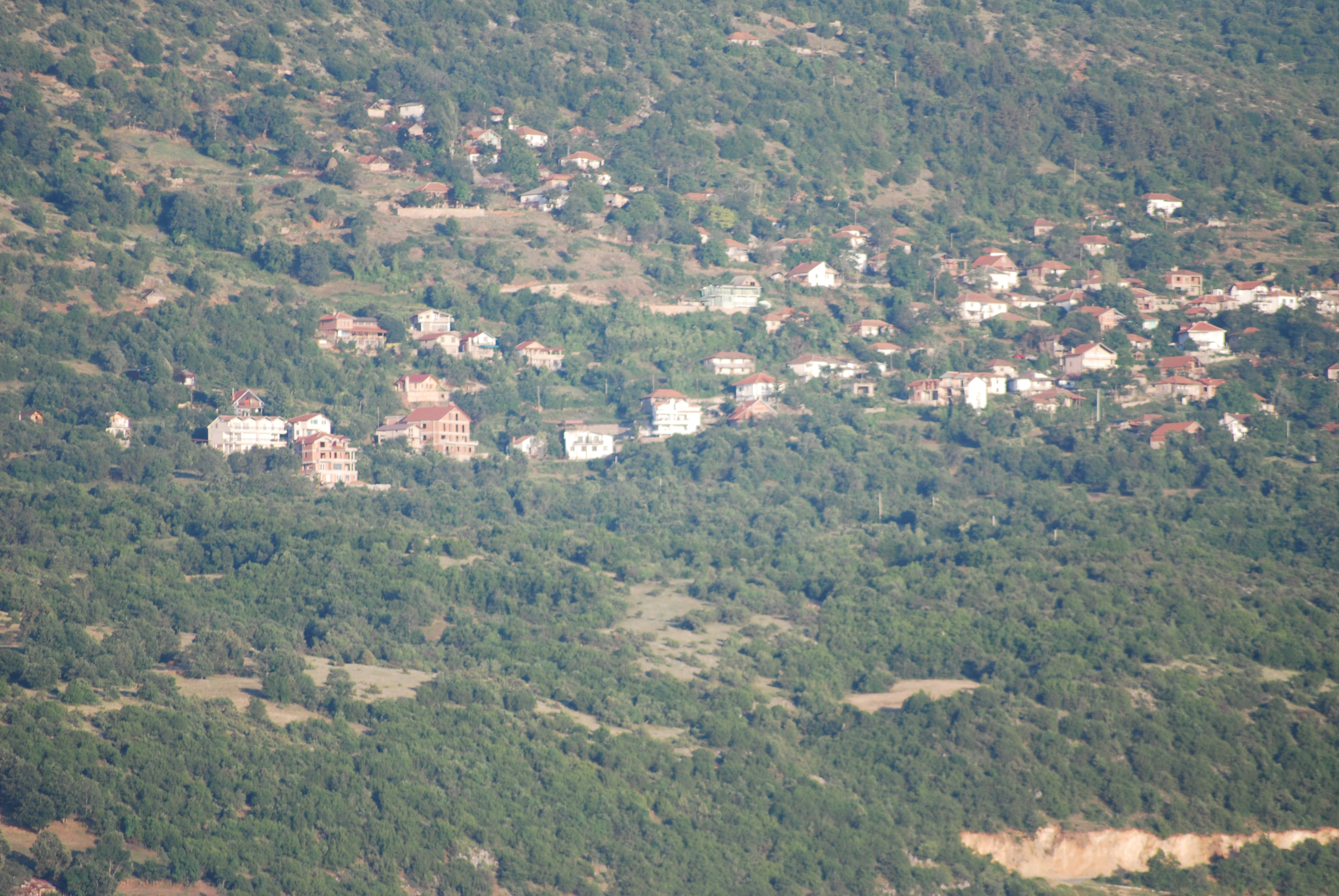 Village Velestovo on Galičica Mountain, Ohrid, Macedonia